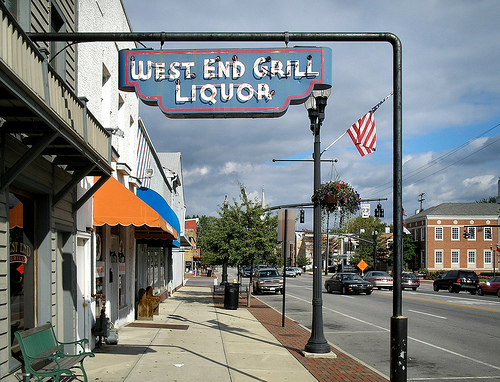 Downtown Delaware, OH.